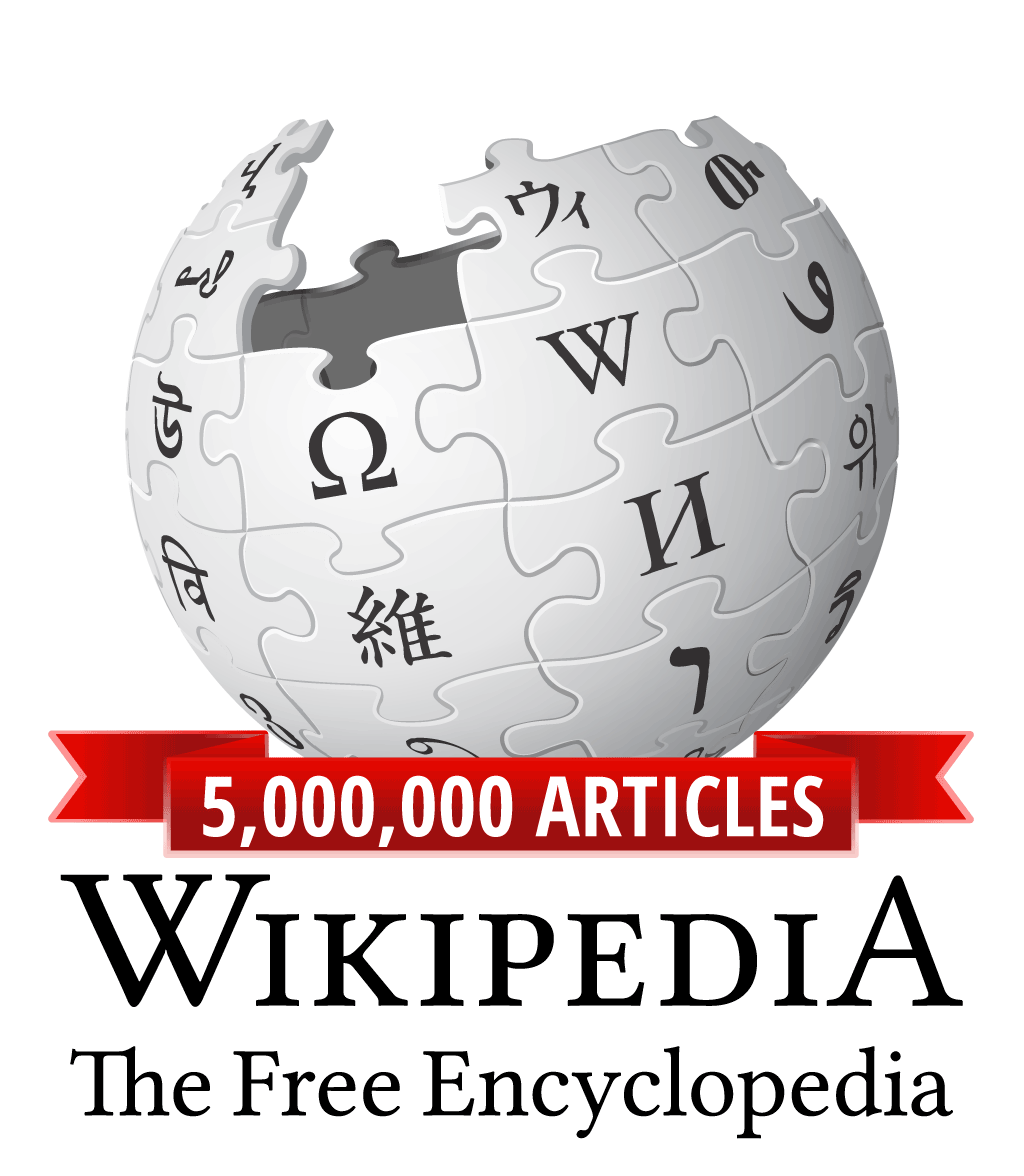 Example of a logo design memorializing 5 million English language articles. This is not necessarily an endorsement of utilizing a design that goes against the corporate identity or mark guidelines, but this is meant to show what a professional logo looks like, versus other ones out there. ™ Wikimedia Foundation, Inc. This file is (or includes) one of the official logos or designs used by the Wikimedia Foundation or by one of its projects. Use of the Wikimedia logos and trademarks is subject to the Wikimedia trademark policy and visual identity guidelines, and may require permission. This tag does not indicate the copyright status of the attached work. A normal copyright tag is still required. See Commons:Licensing for more information.